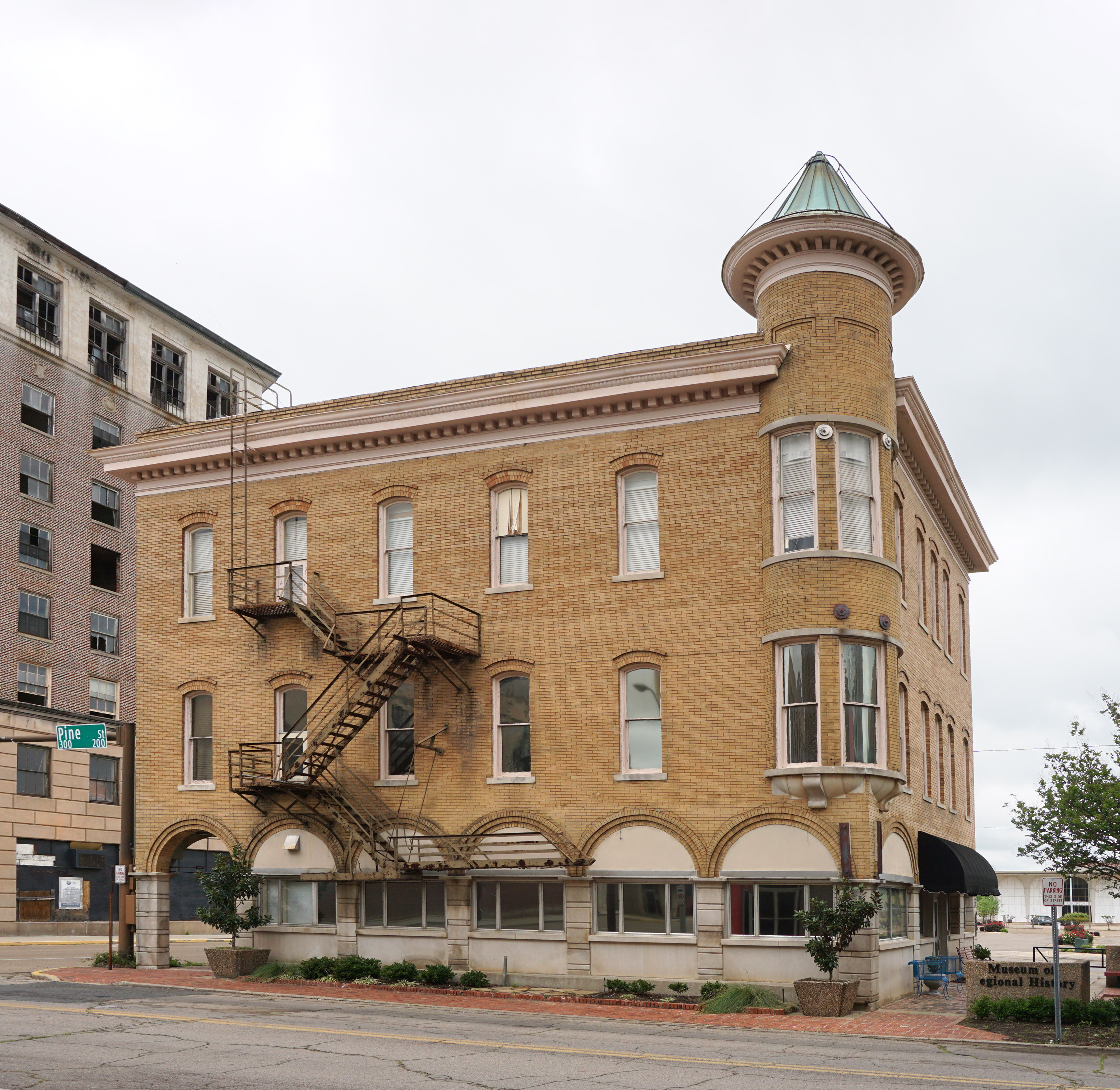 The Museum of Regional History in Texarkana, Texas (United States).